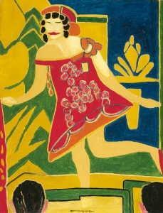 Danseuse by painter Alexis Mérodack-Jeanneau (1873-1919)